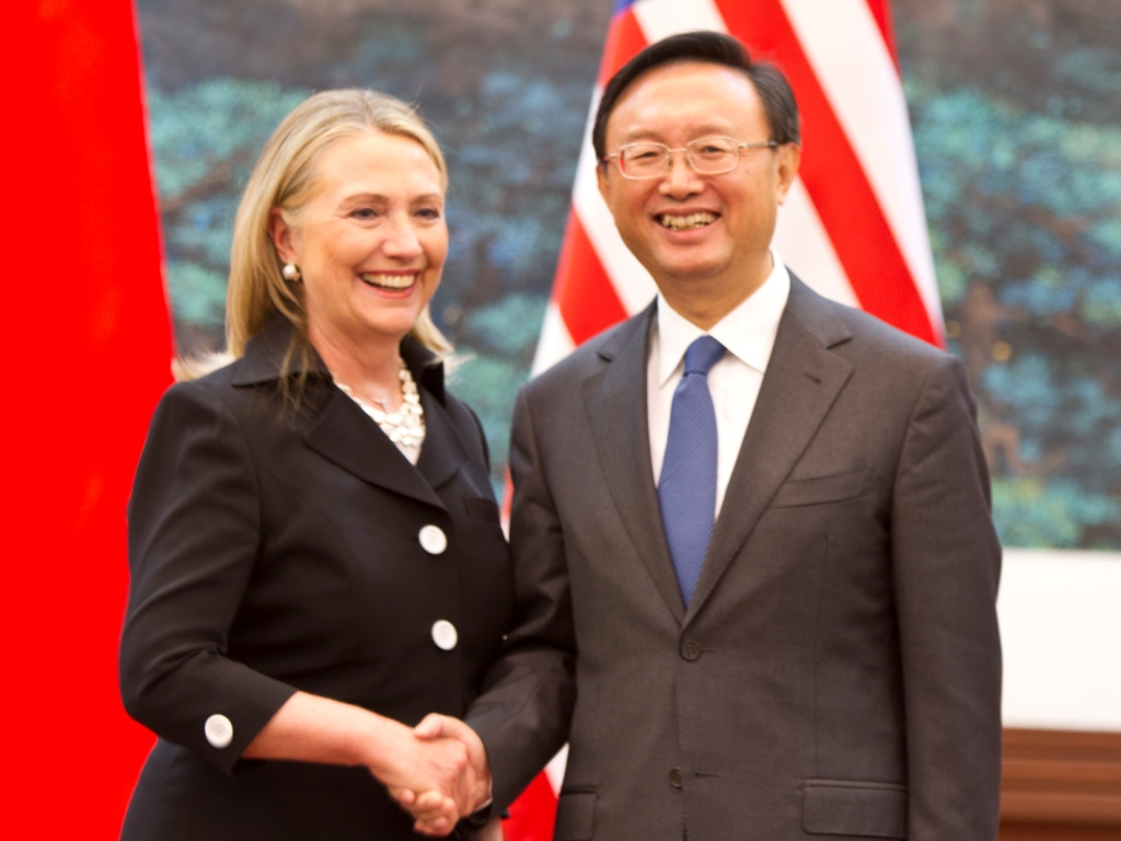 U.S. Secretary of State Hillary Rodham Clinton and Chinese Foreign Minister Yang Jiechi shake hands at end of their joint press conference at the Great Hall of the People in Beijing, China, September 5, 2012. [State Department photo by Alison Anzalone/ Public Domain]